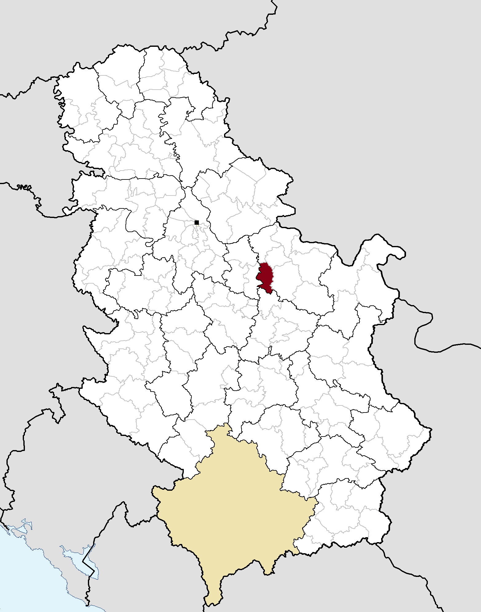 Municipal location in Serbia